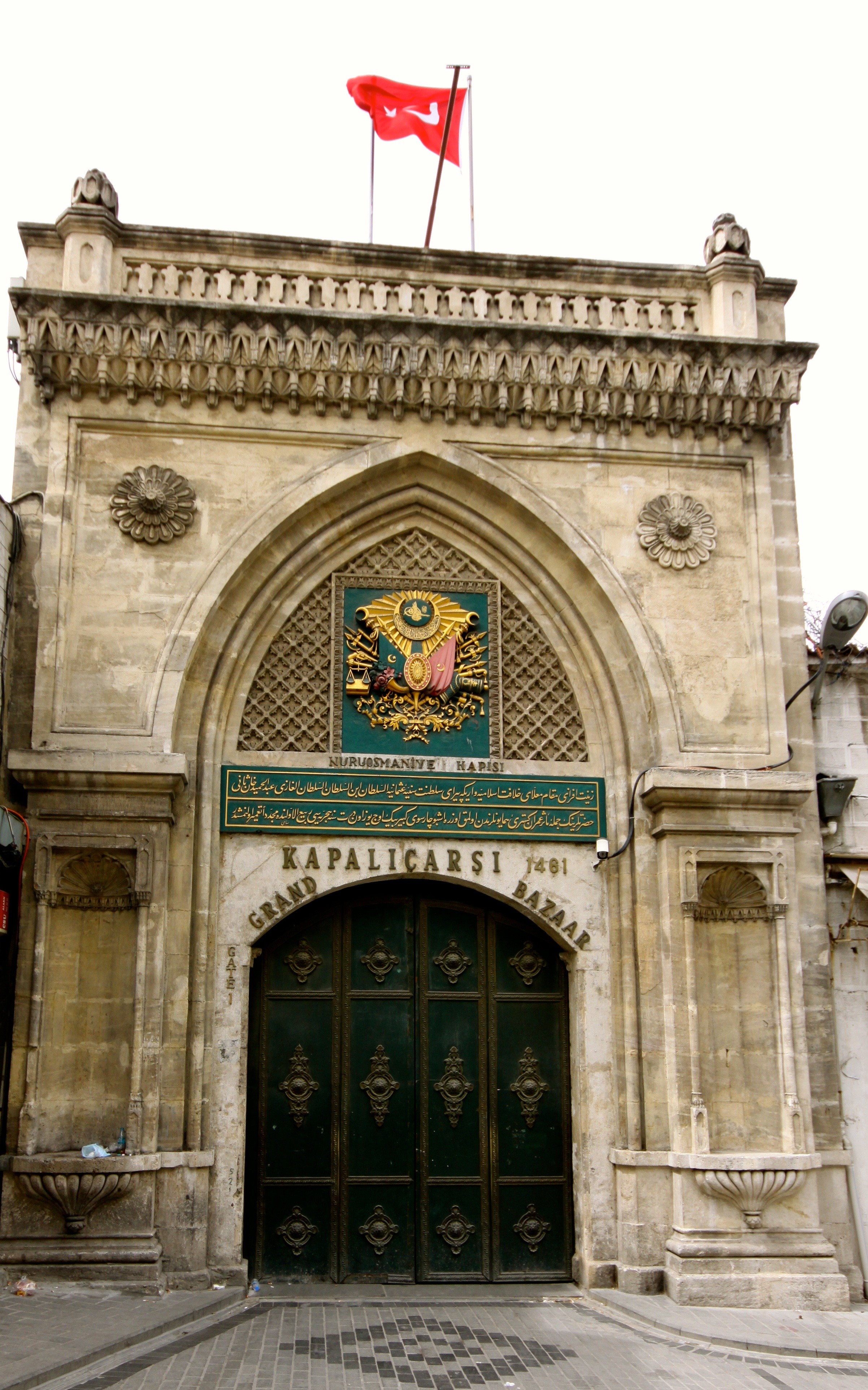 Gate to the Grand Bazaar